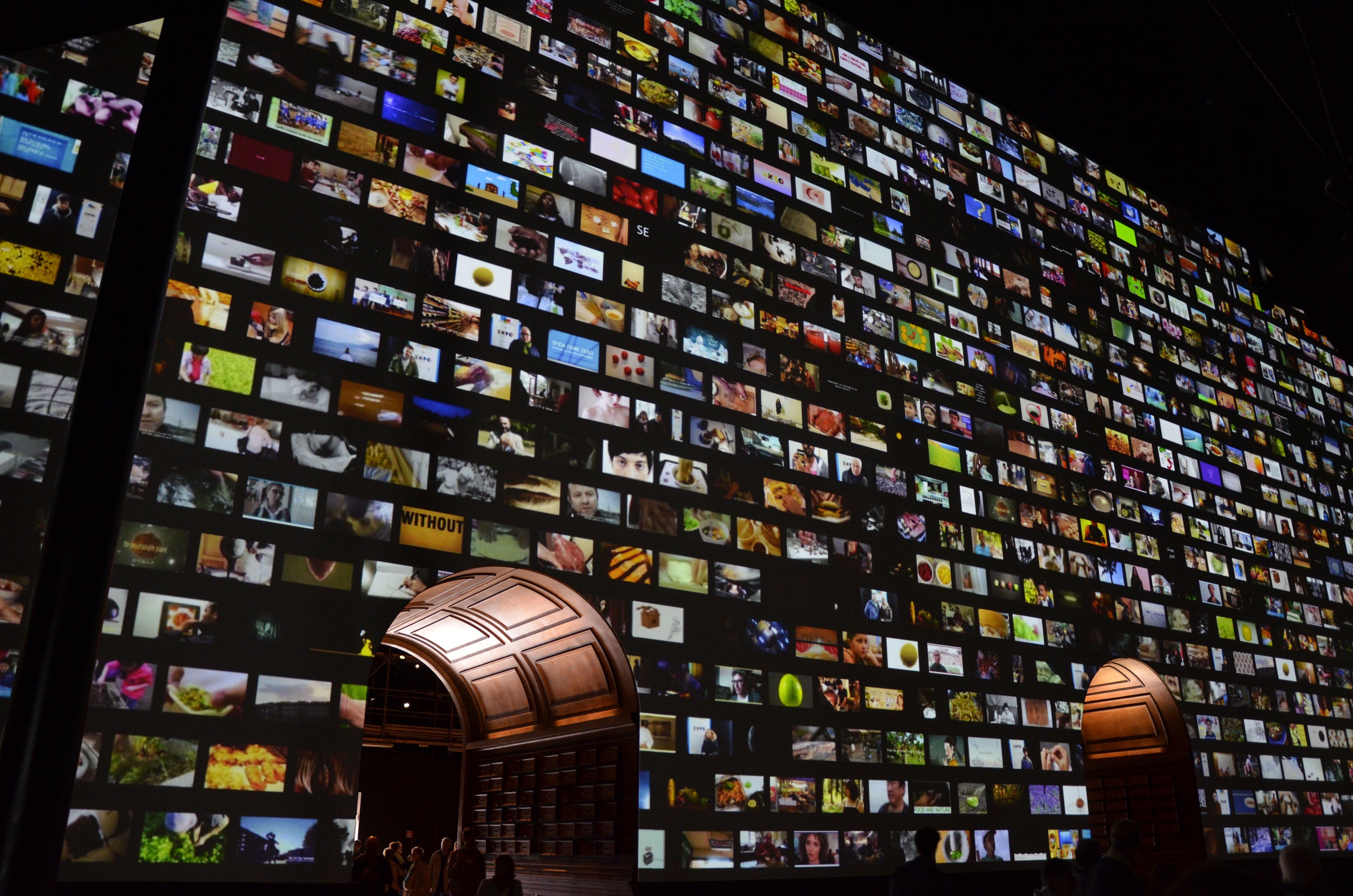 Zero Pavilion, Expo 2015, Milan, Italy.